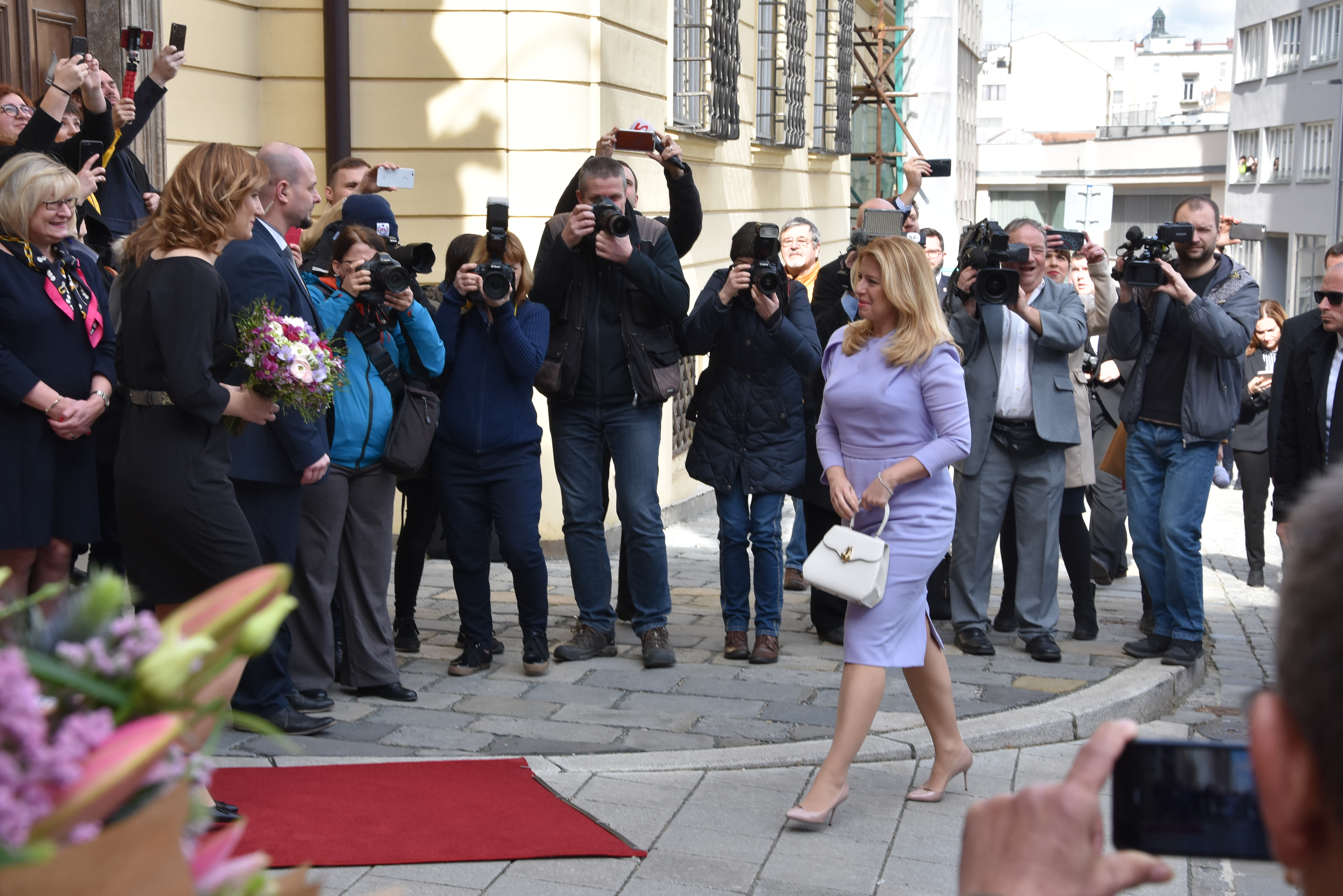 The president of Slovakia, Zuzana Čaputová on a visit to Brno to celebrate 100 years of the Costitution of Czechoslovakia.